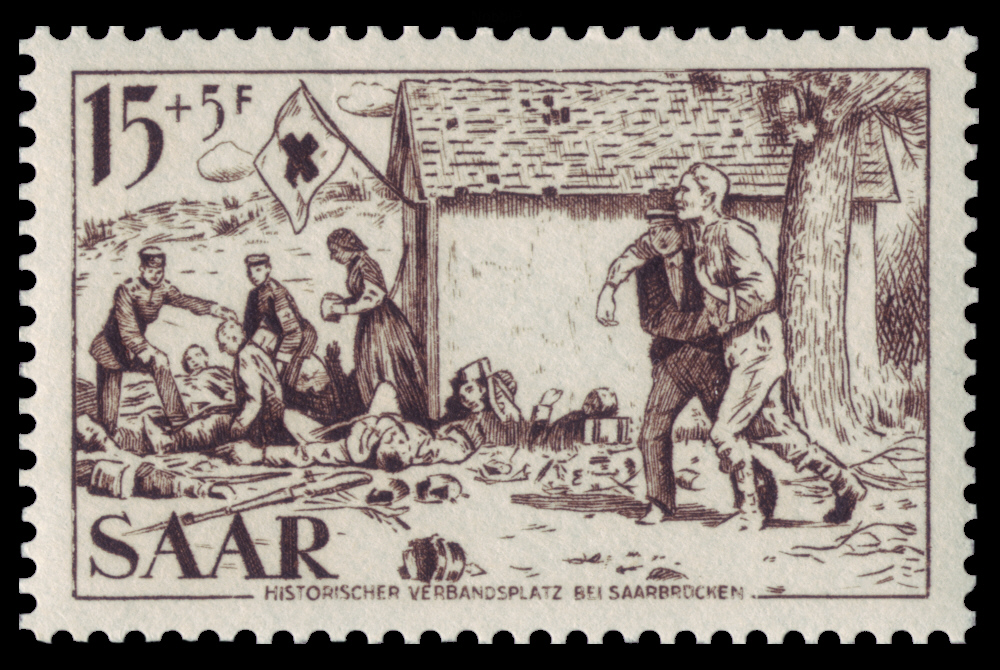 Red Cross